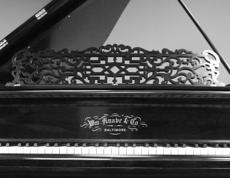 The fallboard of a Knabe grand piano made in around 1884